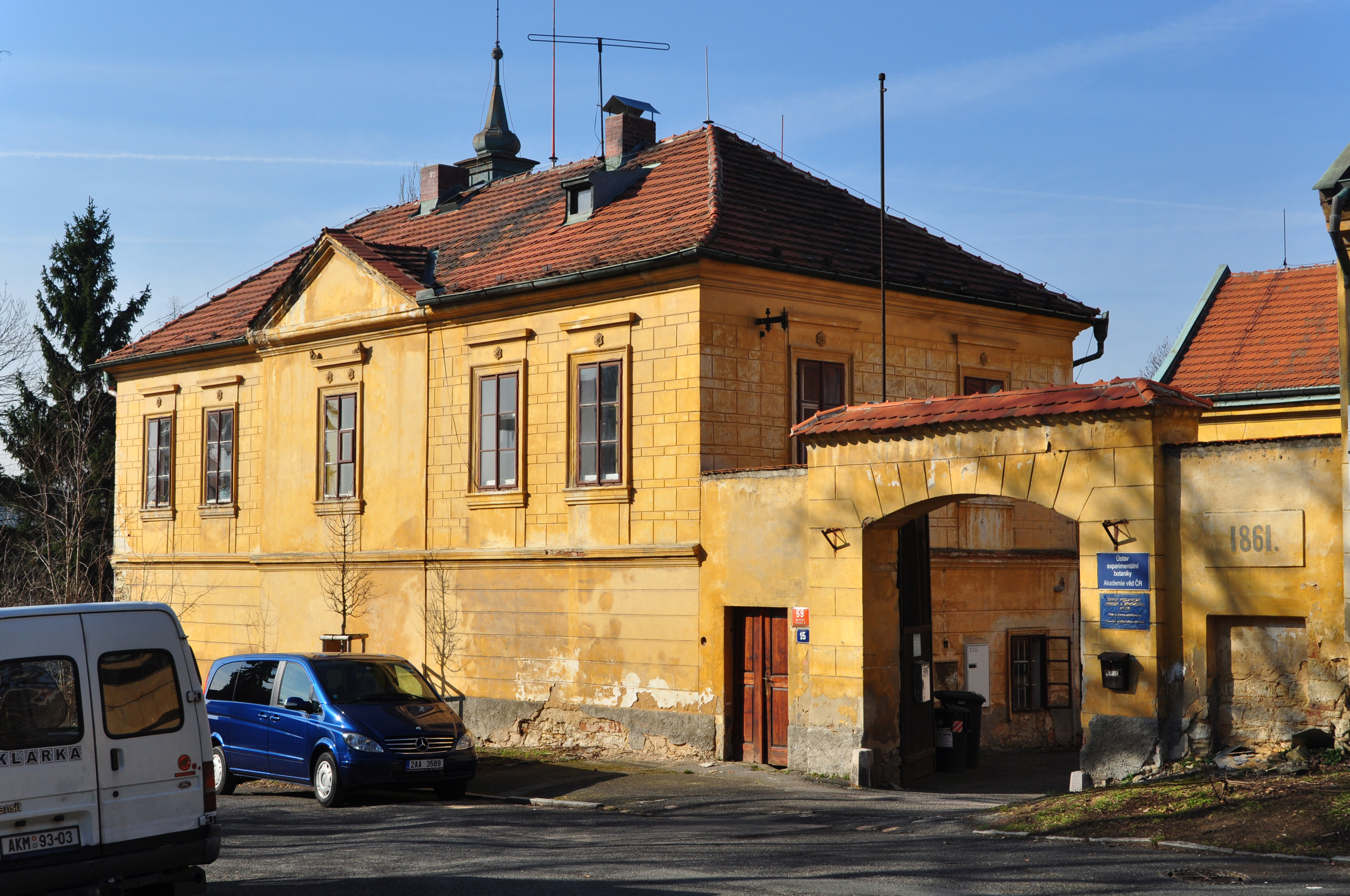 Homestead Perníkářka